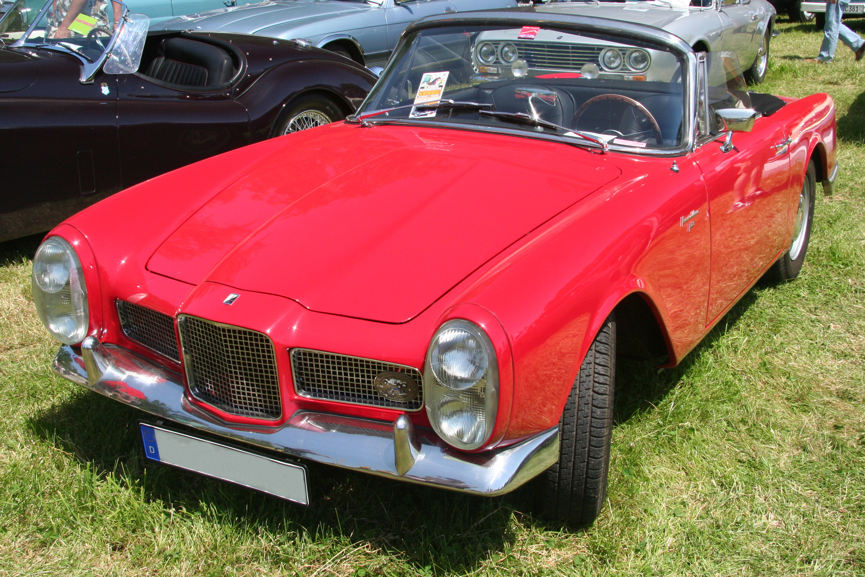 Facel Vega, french sportscar, made by Facel from 1954 to 1964 in different evolution steps, this model is one of the later cars (Facellia F-2, 1959 to 1963), seen on the annual classic car jumble in Maxlrain, Upper Bavaria